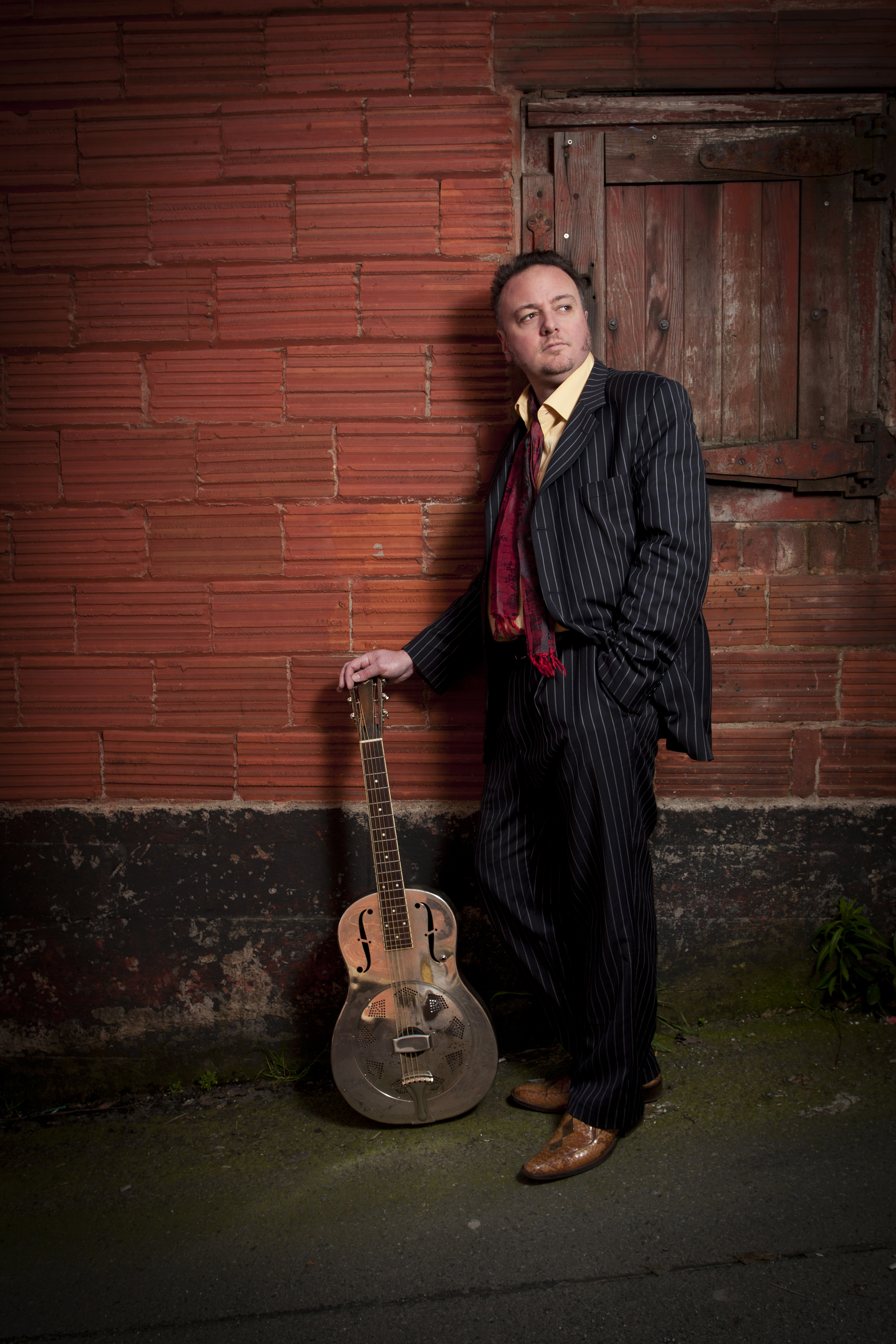 Photograph of Canadian blues musician, David Gogo, and his National Steel guitar.